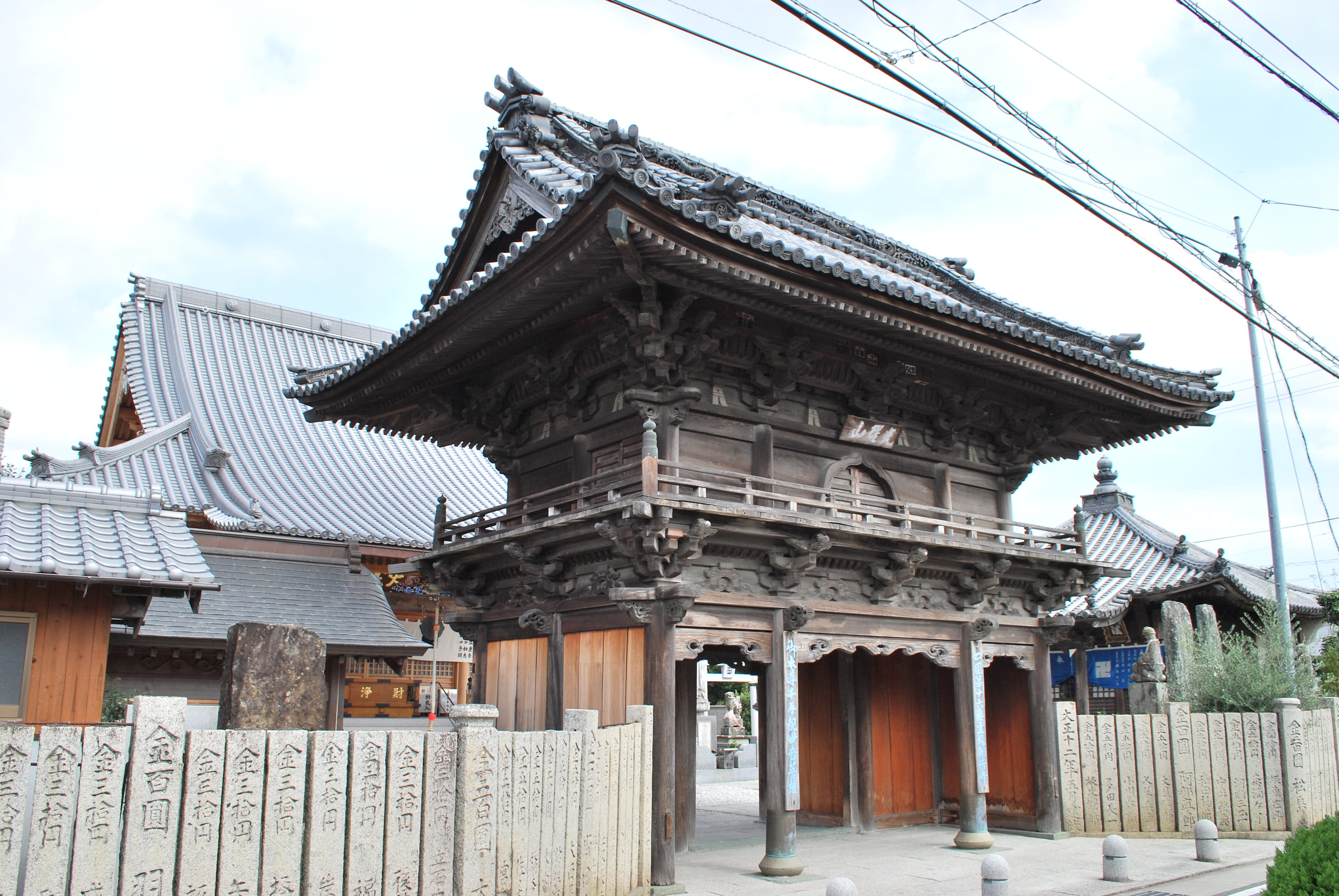 Temple gate, Kan'on-ji